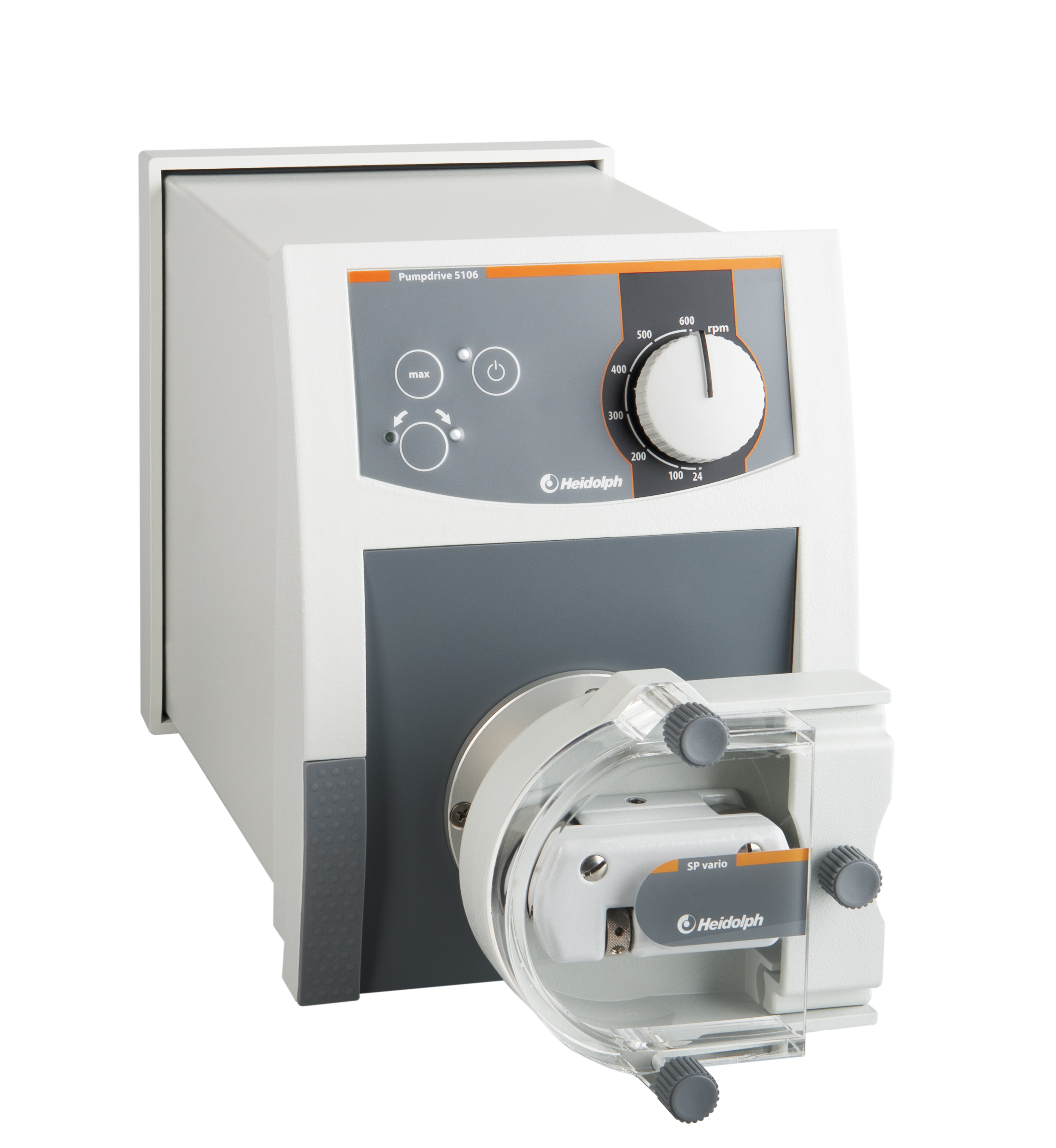 Peristaltic pump with pump head